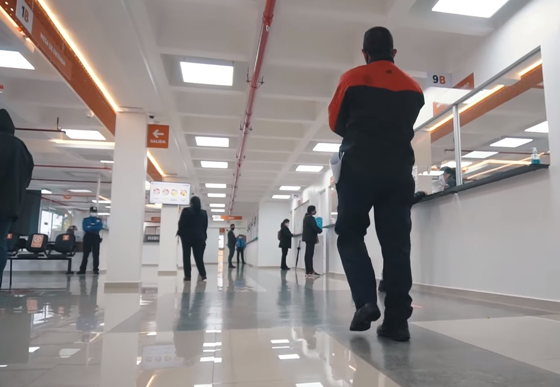 Municipality of Encarnación, Paraguay